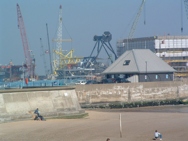 Lowestoft Harbour Wall Lowestoft harbour wall, the RNLI office and behind it, lots of development taking place.